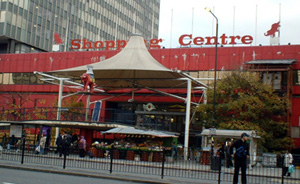 Elephant and Castle shopping centre, southwark, london. Taken by C Ford, 8th November 2003.